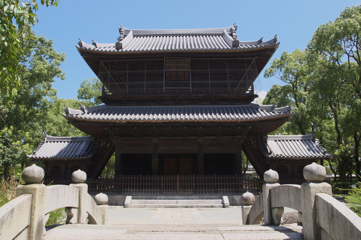 Shoufukuji temple inner gate, in Hakata-ku, Fukuoka city, Japan.